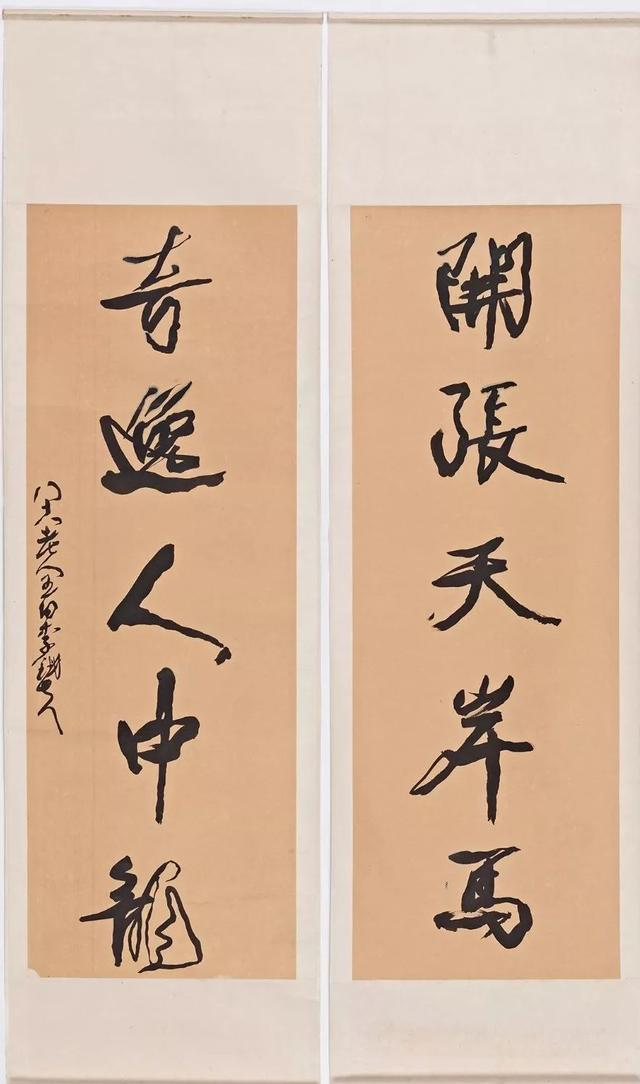 Calligraphy by LI Tiefu (passed away in 1952)